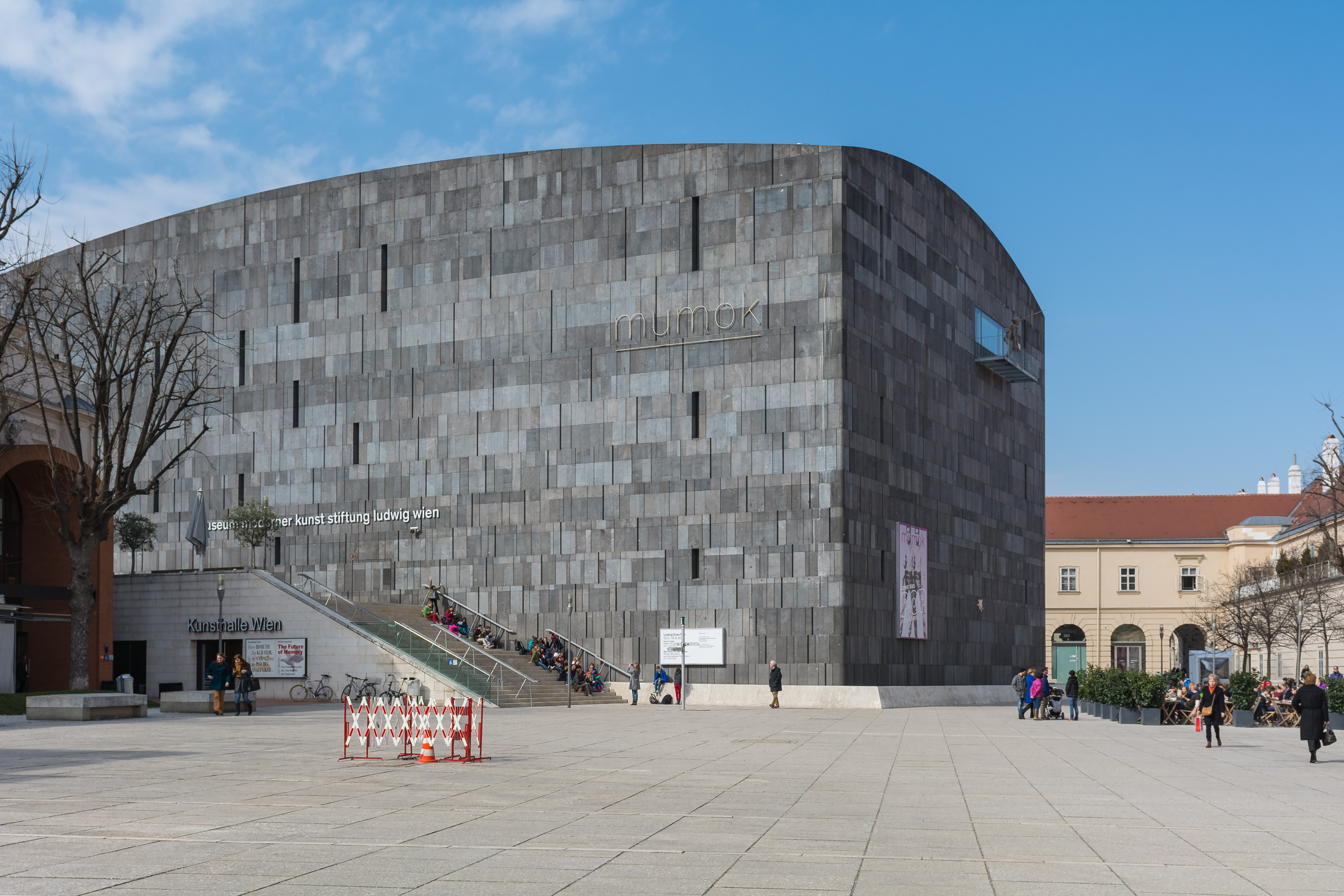 The Museum of Modern Art Foundation Ludwig Vienna at Museumsplatz (abreviation: mumok) was opened on September 15, 1981. The facade of the building is cladded with volcanic rock.